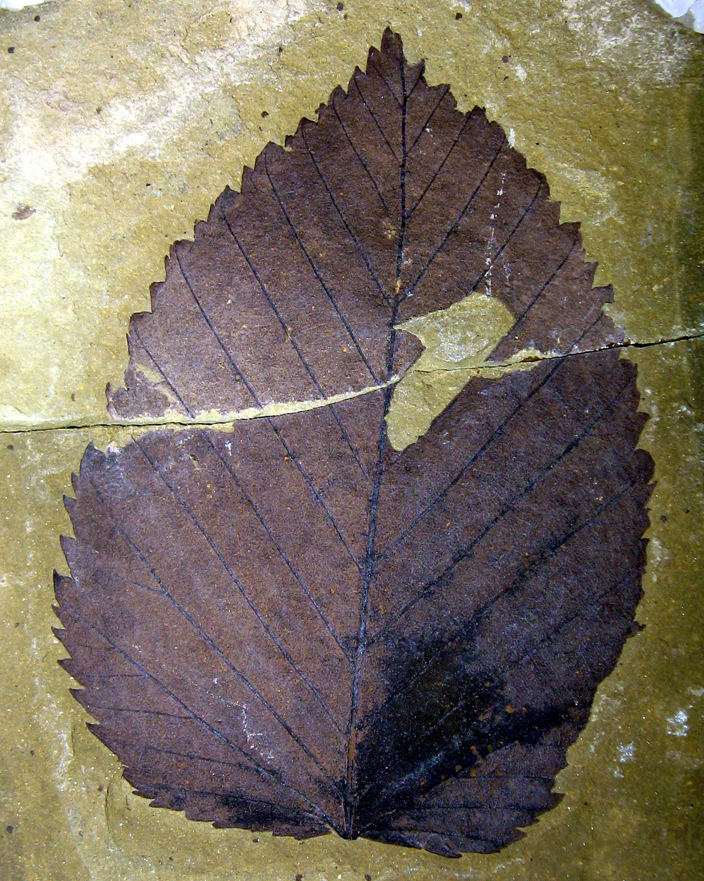 A 5.5cm tall fossil leaf from the extinct Nyssaceae genus and species Tsukada davidiifolia. 49 million years old, Klondike Mountain Formation, Republic, Washington. Stonerose Interpretive Center Collections# SR 09-21-20 A.